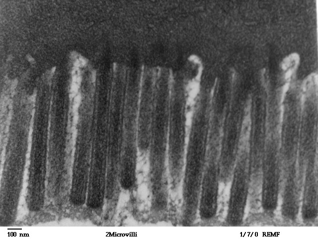 Transmission electron microscope image of a thin section cut through a human jejunum(segment of small intestine) epithelial cell. This high magnification image of MV1 Image shows some of the densely packed microvilli that make up the striated border. Each microvillus is approximately 1um long by 0.1um in diameter and contains a core of actin microfilaments. JEOL 100CX TEM